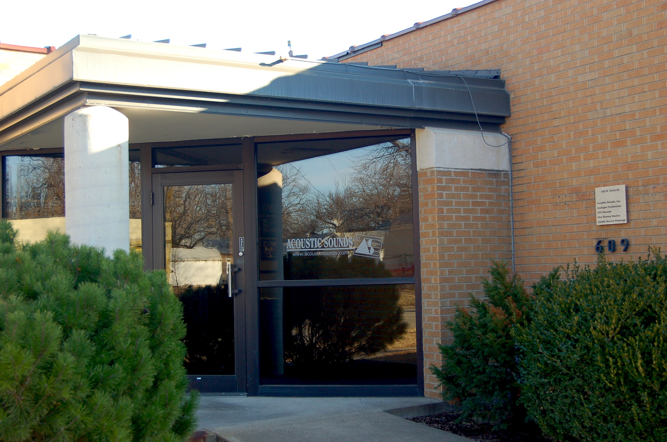 The front entrance to Acoustic Sounds Inc., located in the 600 block of West North Street, Salina, Kansas.